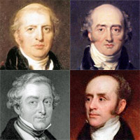 Four British prime ministers of the early 19th century, cropped and composited from Wikipedia images File:Lord Liverpool.jpg, File:George Canning by Richard Evans.jpg, File:Grey2.jpg, and File:Robert Peel.jpg